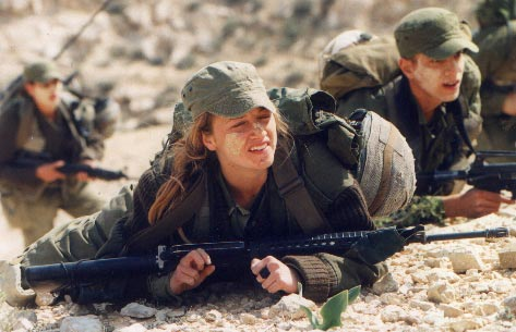 IDF soldier training